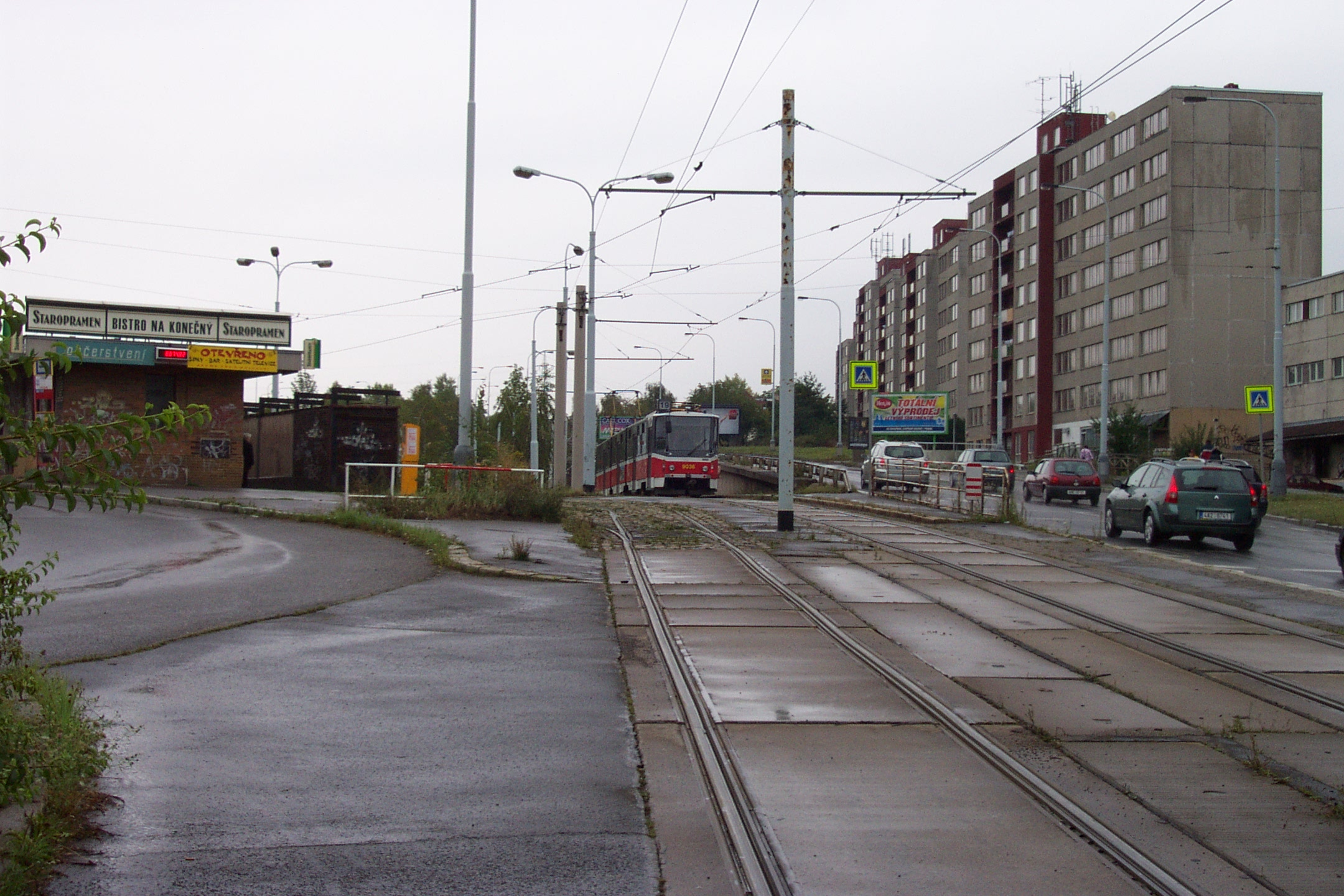 Tram terminus Lehovec in Prague, CZ